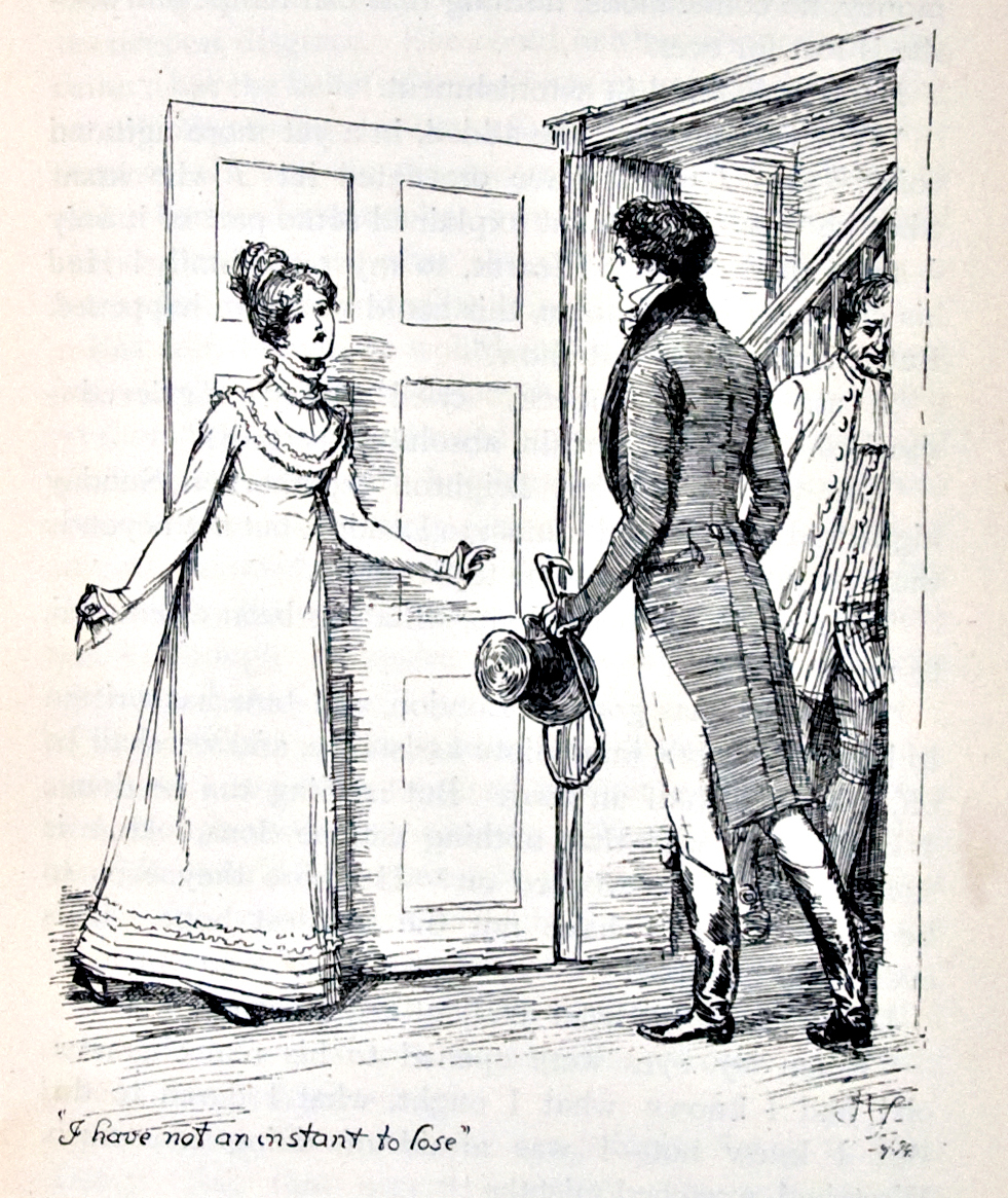 "I have not an instant to lose" - Elizabeth, having just discovered that Lydia eloped with Wickham, dismisses Darcy. Austen, Jane. Pride and Prejudice. London: George Allen, 1894, page 339.